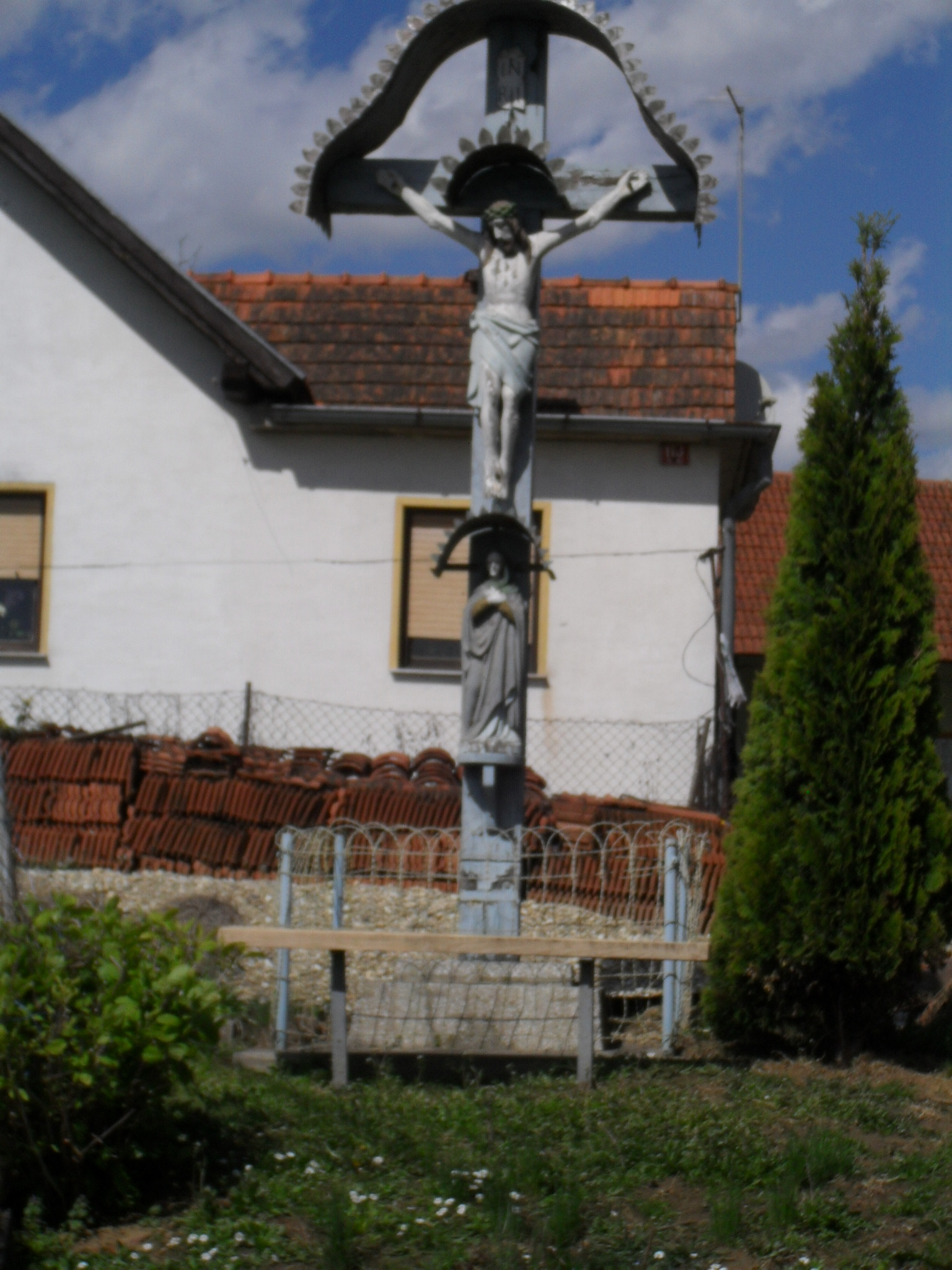 Wooden crucifix in Čepinci, near Neradnovci